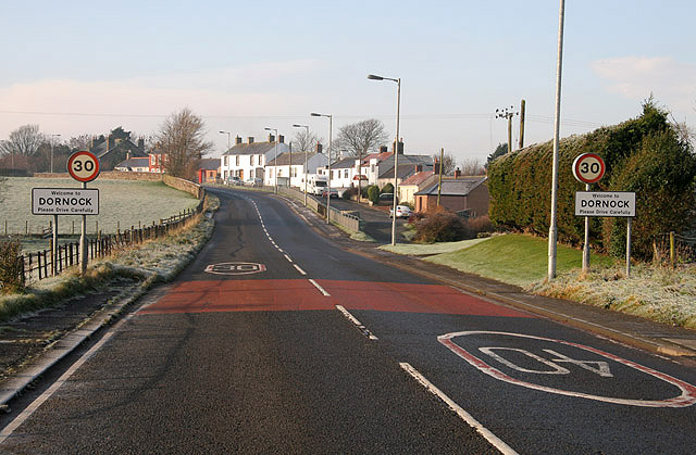 Entering Dornock from the east Dornock is a small village to the west of Eastriggs.